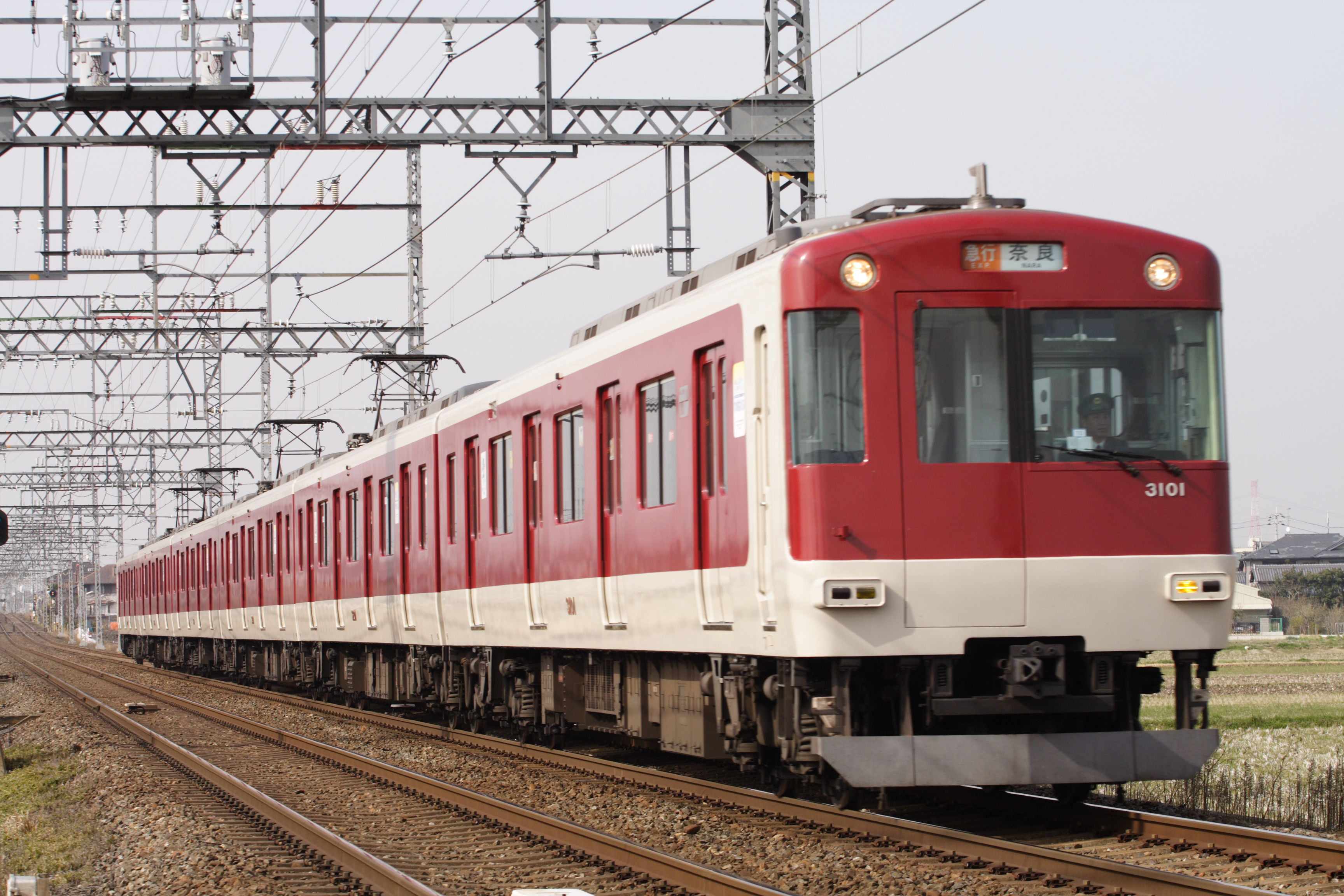 近畿日本鉄道・3200系電車/series 3200 electric car of Kintetsu Corporation